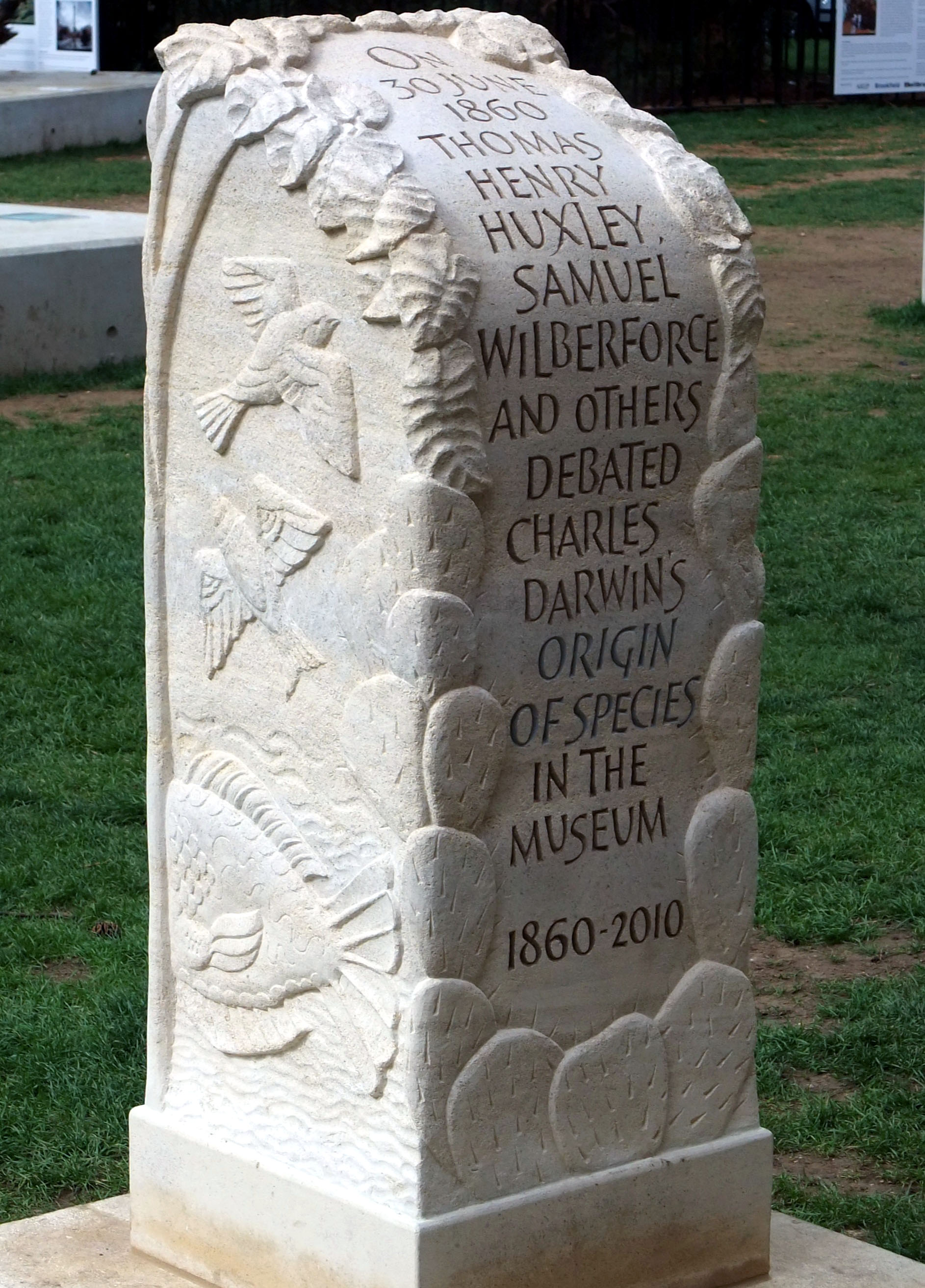 The plaque outside the Oxford University Museum of Natural History, commemorating the debate on evolution which occurred there in 1860 between Thomas Henry Huxley, Samuel Wilberforce and others. Parts of Angela Palmer's "Ghost Forest" installation are visible in the background.